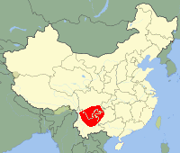 Bombina maxima distribution